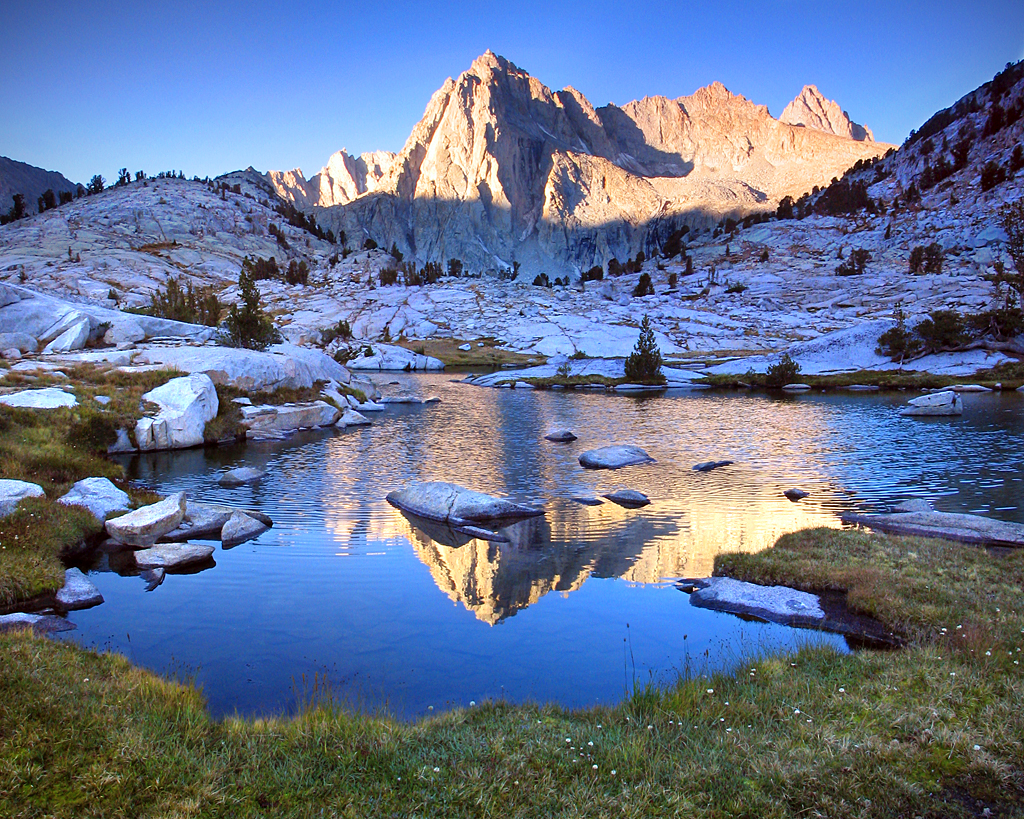 Picture Peak over Sailor Lake, Sabrina Basin, Sierra Nevada